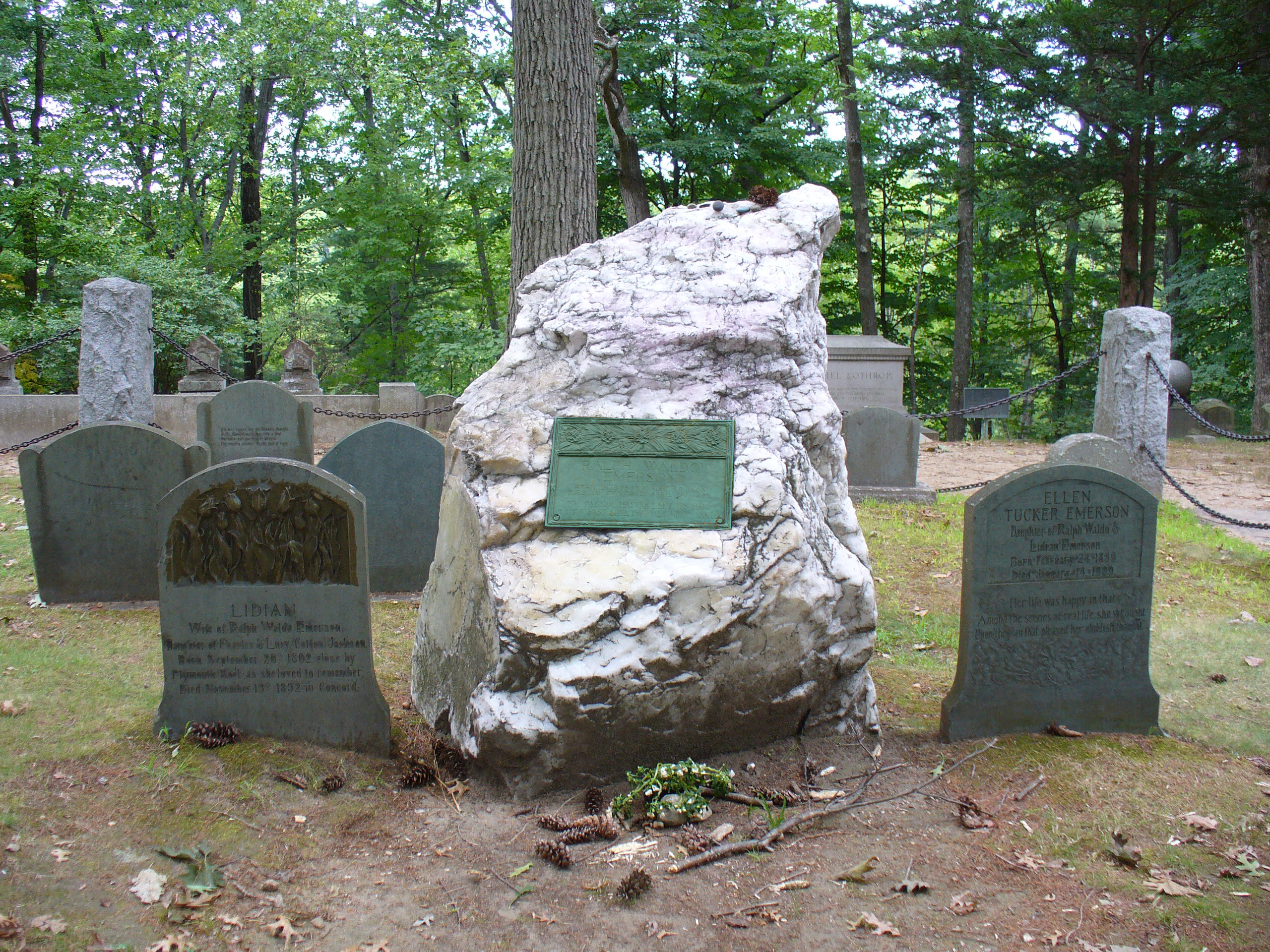 This is a photograph taken of Ralph Waldo Emerson's grave at the Sleepy Hollow Cemetery on Bedford Street near the center of Concord, Massachusetts.